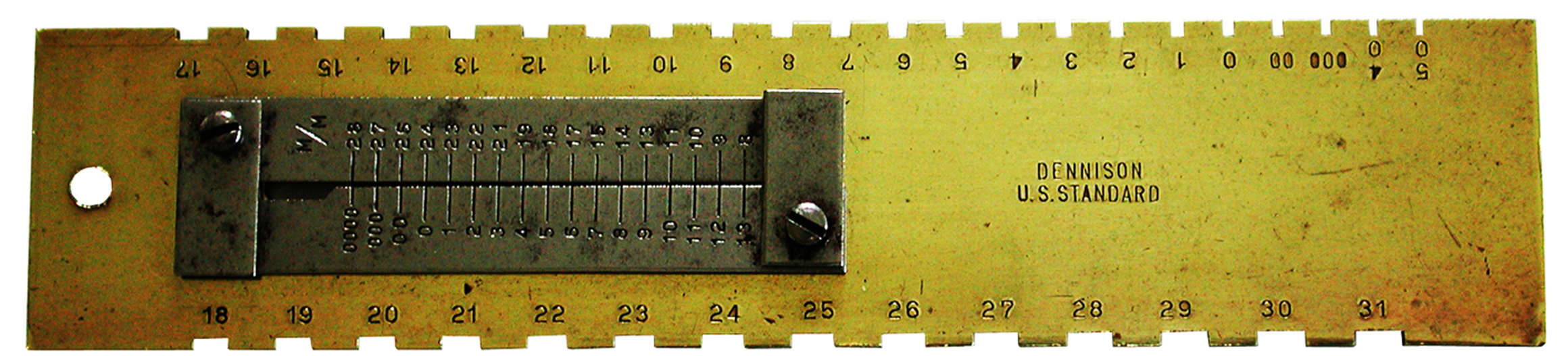 Dennison siomplified mainspring gauge